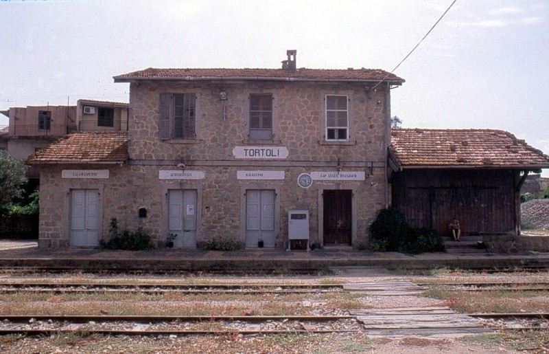 The Tortolì station, along the turistic railway Mandas-Arbatax, in Sardinia, Italy